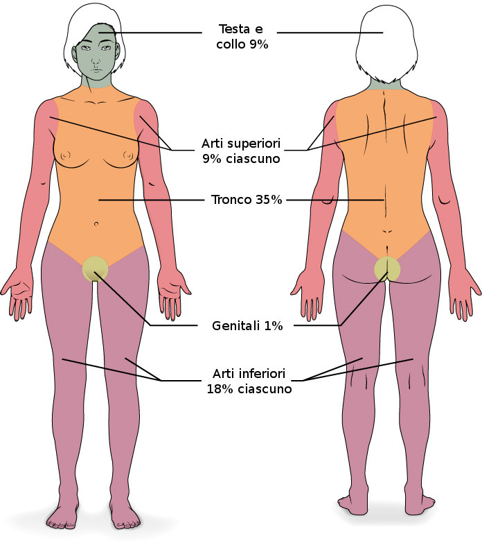 Masterizza gravità è determinata anche se tra le altre cose la dimensione della pelle colpita. L'immagine mostra la composizione delle diverse parti del corpo, per aiutare a valutare le dimensioni di masterizzazione.